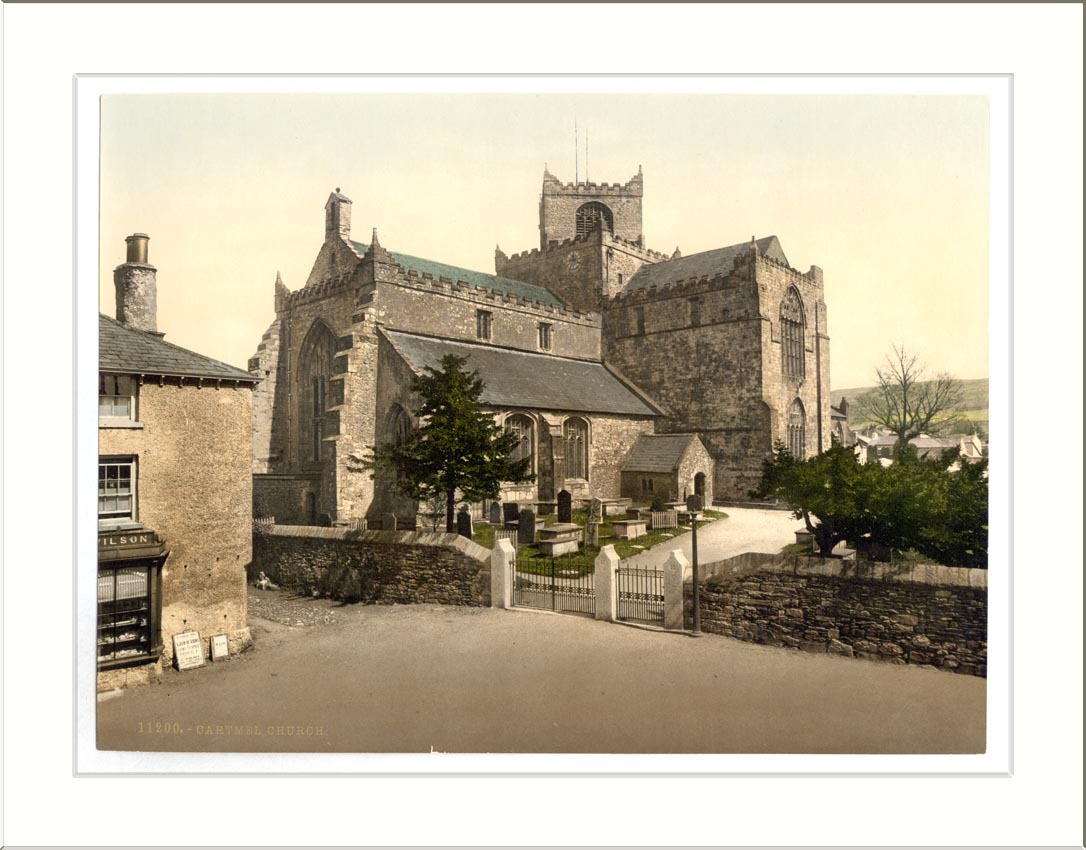 Church Cartmel England